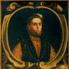 This is a portrait image of Maria, it was drawn during the time of her adult years. Since she died in 1402, this image has long been in the public domain as per the attached license on Italian copyright laws.